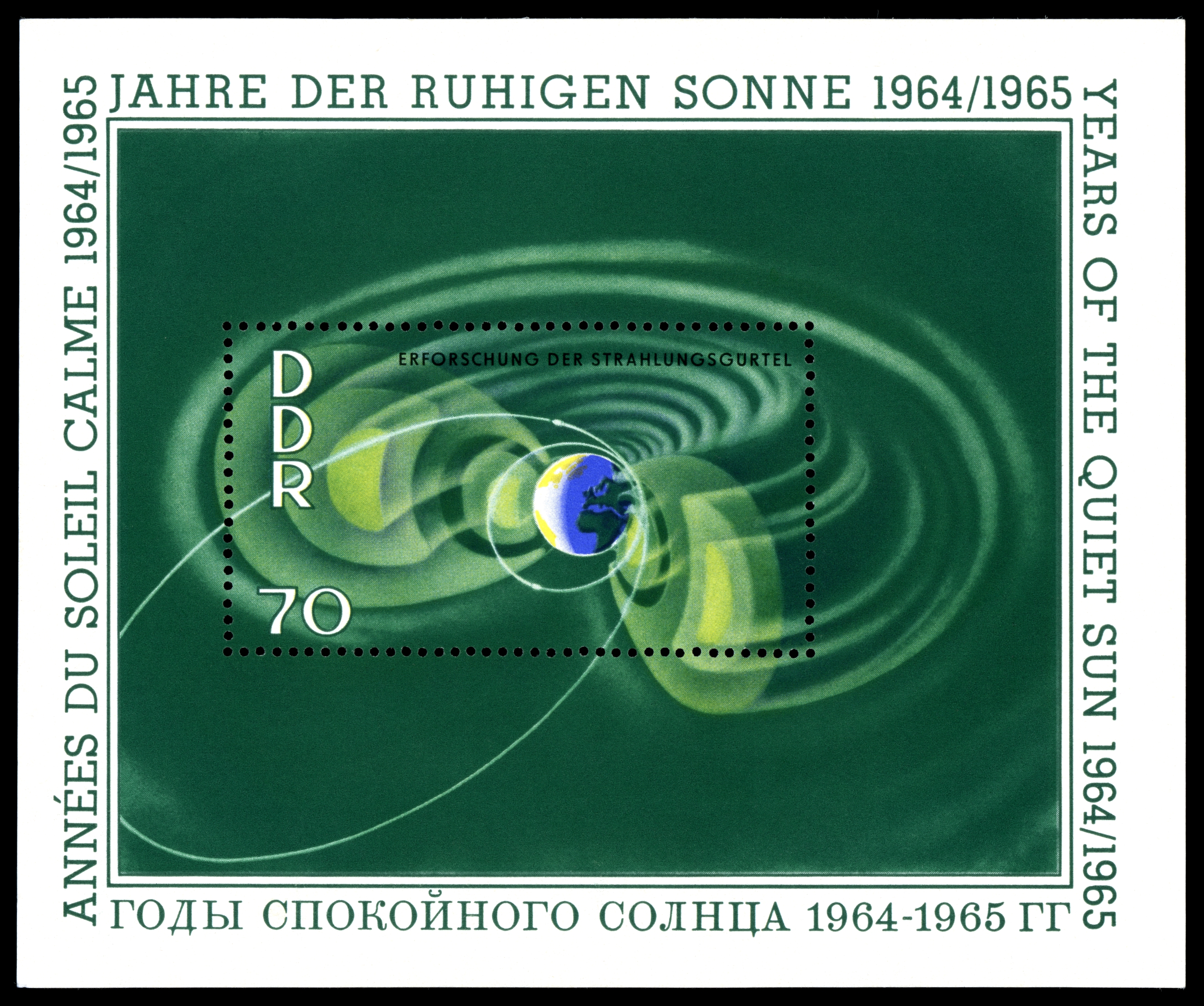 Ausgabepreis: 70 Pfennig First Day of Issue / Erstausgabetag: 29. Dezember 1964 Auflage: 1.700.000 Entwurf: Urbschat Druckverfahren: Offsetdruck Michel-Katalog-Nr: Ländercode-MiNr: Block 22 Licensing This file is most likely NOT in the public domain. It has been marked for review, and will be deleted in due course if the review does not find it to be in the public domain. This file was previously considered to be in the public domain as a German stamp; it is possible that it is in the public domain for other reasons, in which case a new rationale will be applied as part of the review process. See below for the previous rationale. Previous public domain rationale, no longer applicable This stamp is in the public domain in Germany because it was released by the postal administration of the German Democratic Republic or the Soviet occupation zone (Deutschen Post der DDR) whose legal successor is the Federal Republic of Germany. Thus it is an official work according to German copyright law (§ 5 Abs. 1 UrhG).